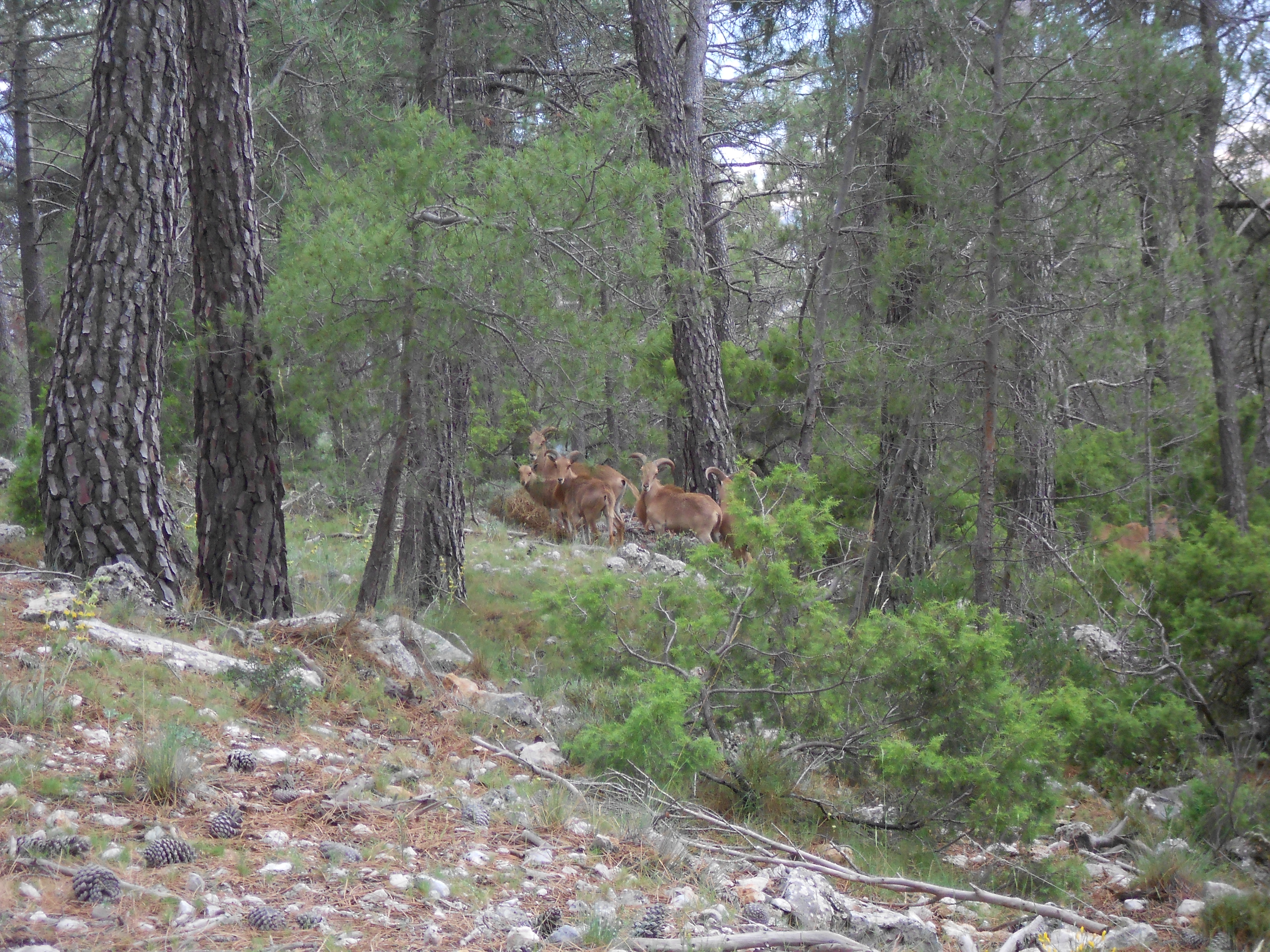 Sierra Espuña, herd of barbary sheep (Ammotragus lervia)